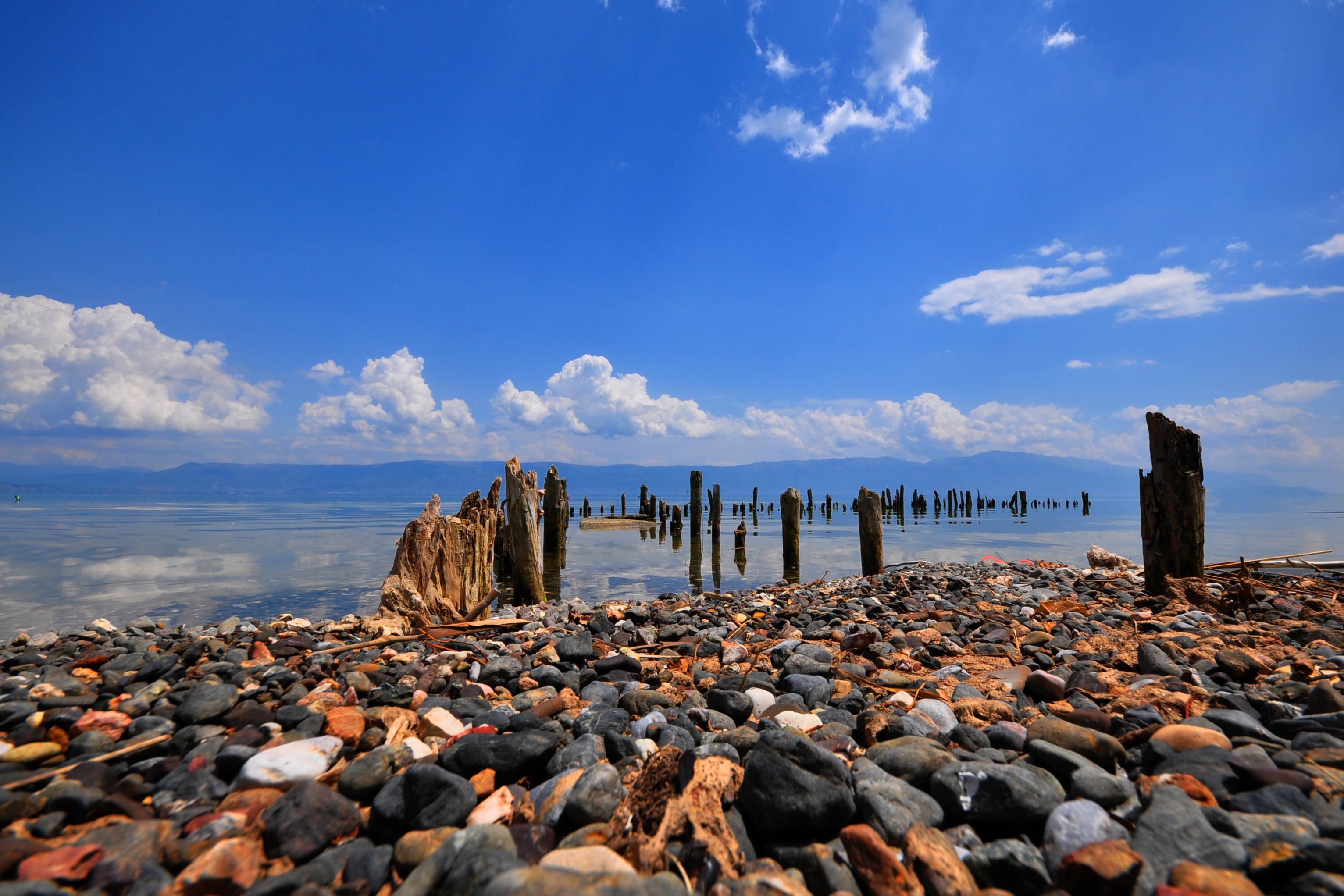 Ohrid Lake - view from Radozda village Ова е фотографија на природна област во Македонија со код: C01 This is a a photo of a natural area in Macedonia with id: C01